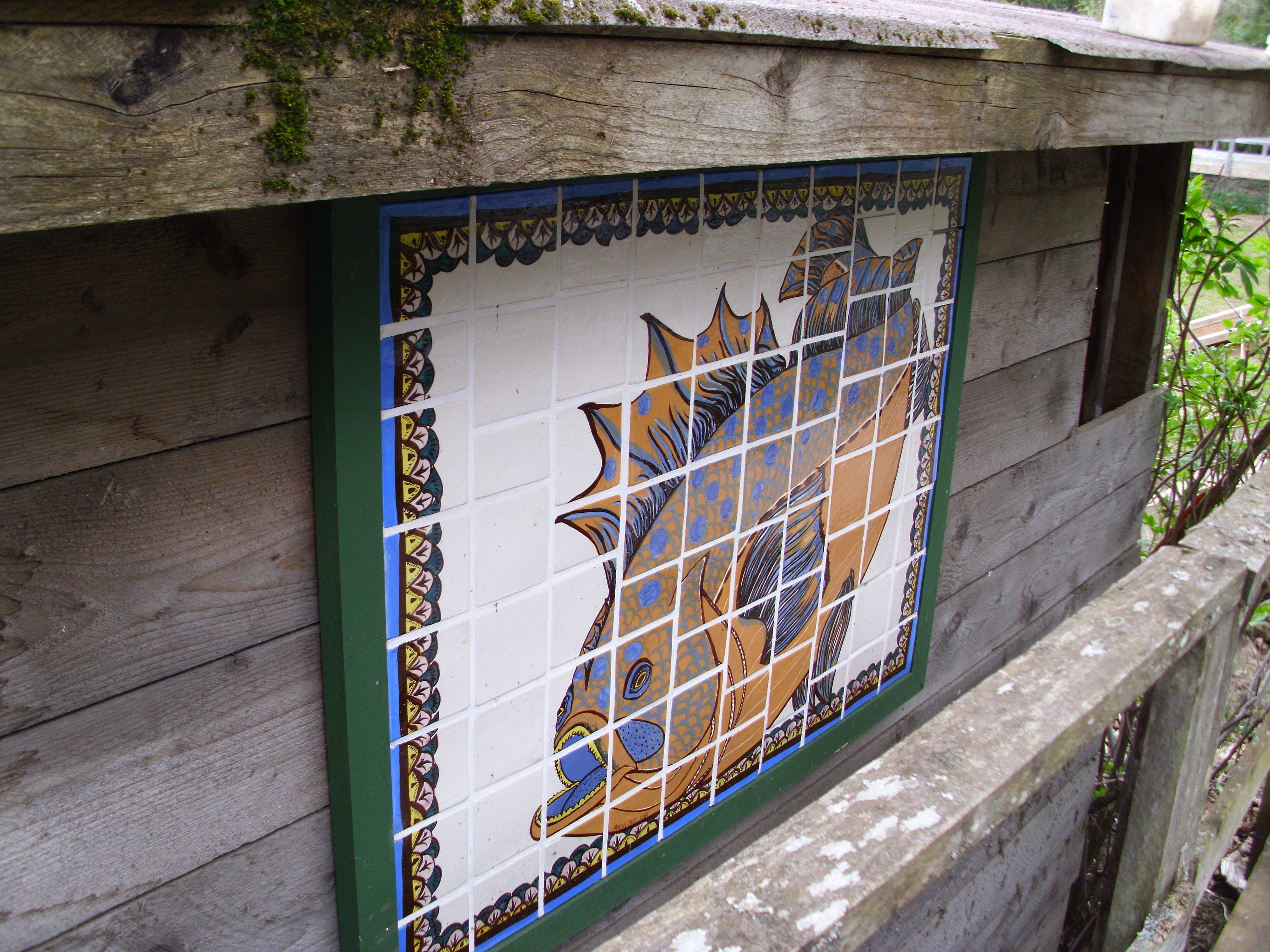 Mural depicting a rockfish on the public boardwalk, Halibut Cove, Alaska